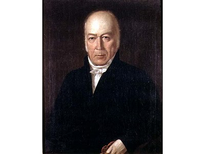 Laurence Hynes Halloran portrait attributed to Augustus Earle, State Library of New South Wales.